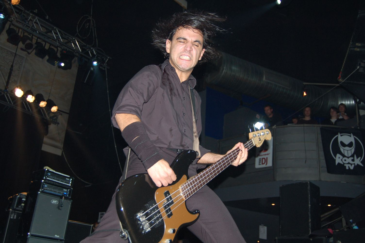 Bass player John Calabrese